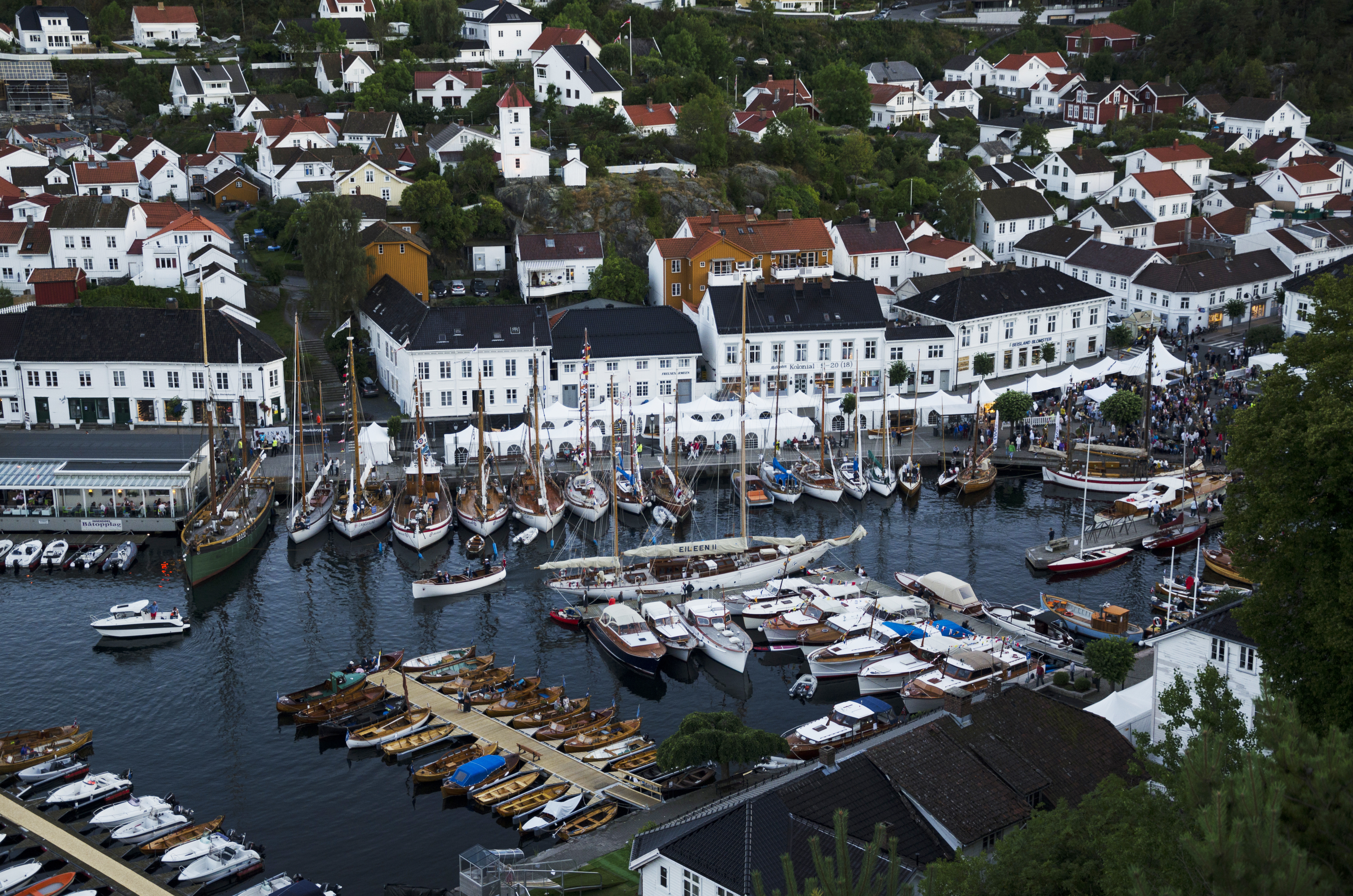 Risør inner harbour seen from a hill above during the Wooden Boat Festival in august 2017.